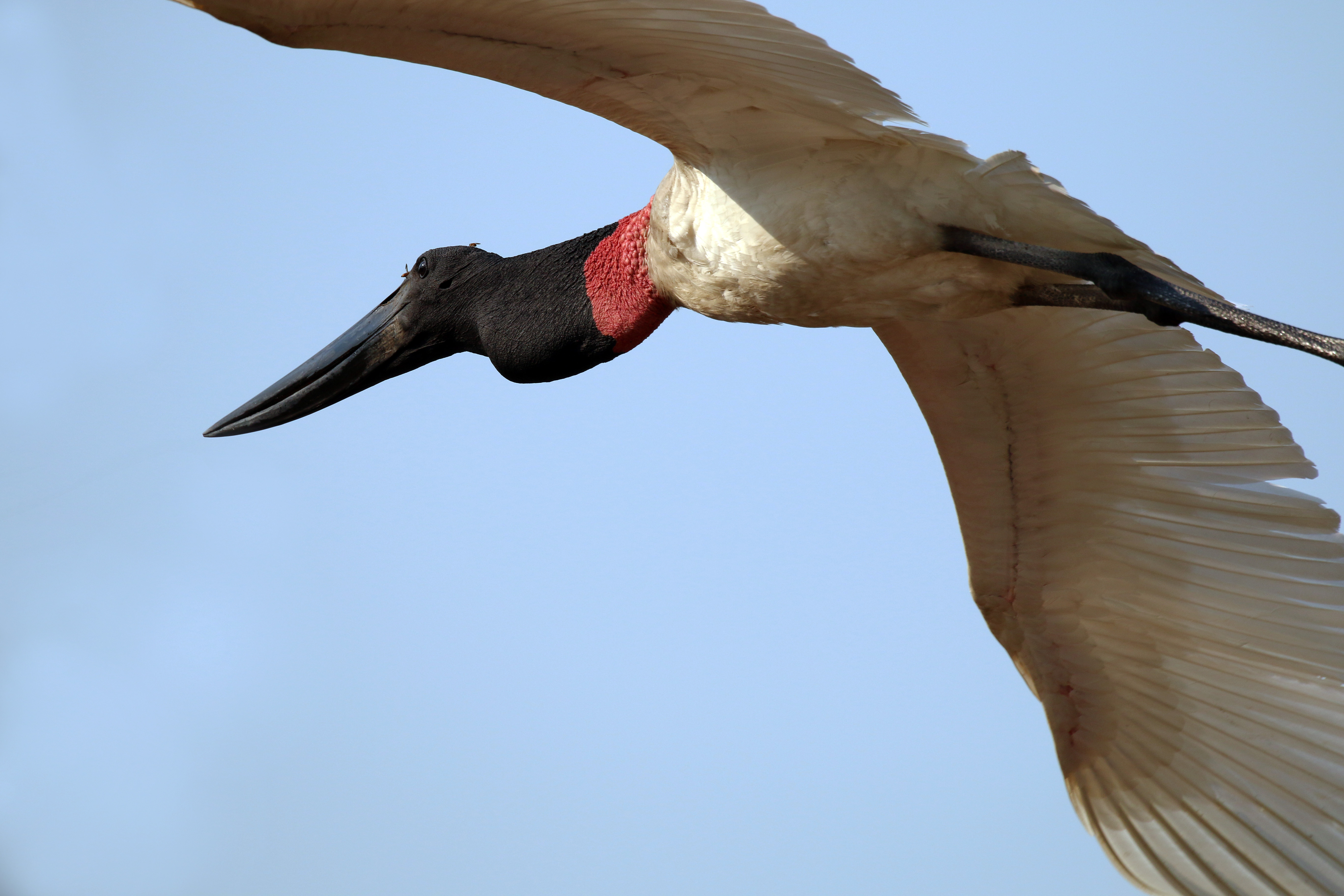 Jabiru (Jabiru mycteria) in flight, the Pantanal, Brazil